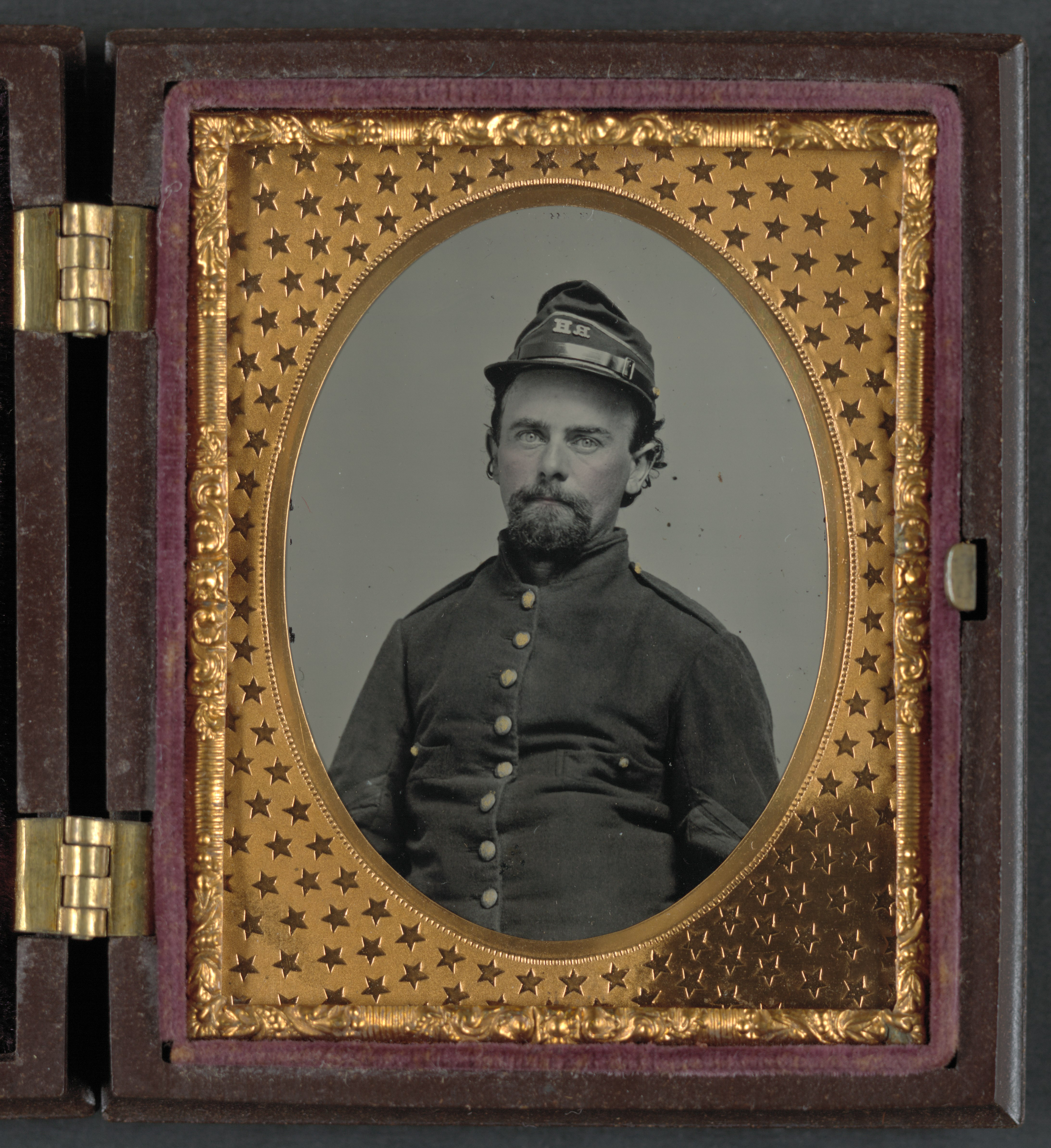 Title: Unidentified soldier in Confederate uniform and Richmond Howitzers artillery unit hat Abstract/medium: 1 photograph : ninth-plate ambrotype, hand-colored ; 7.5 x 6.4 cm (case)